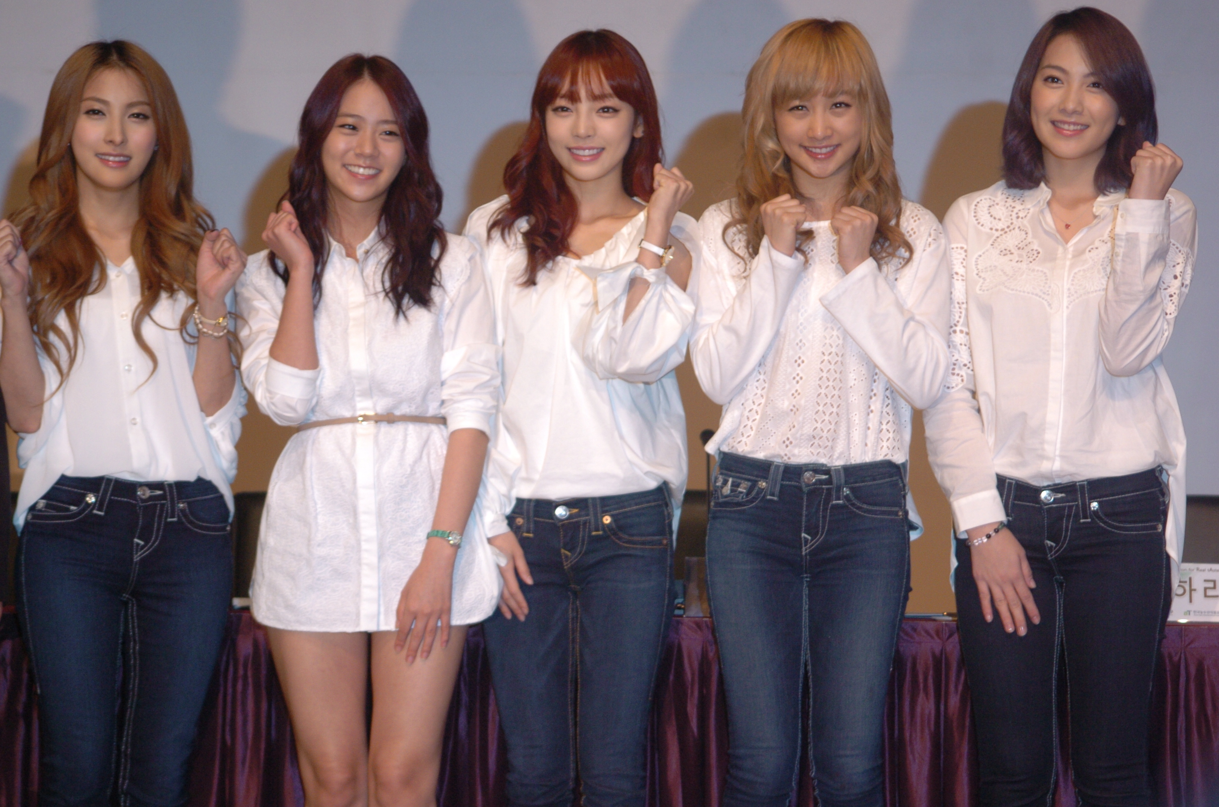 Kara in 2012. From the left Gyu-ri, Seung-yeon, Ha-ra, Nicole and Ji-young